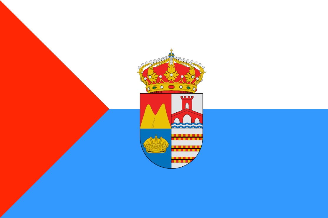 The flag of Villarta de los Montes, an improved version of File:Villarta flag.gif, with details clearer.